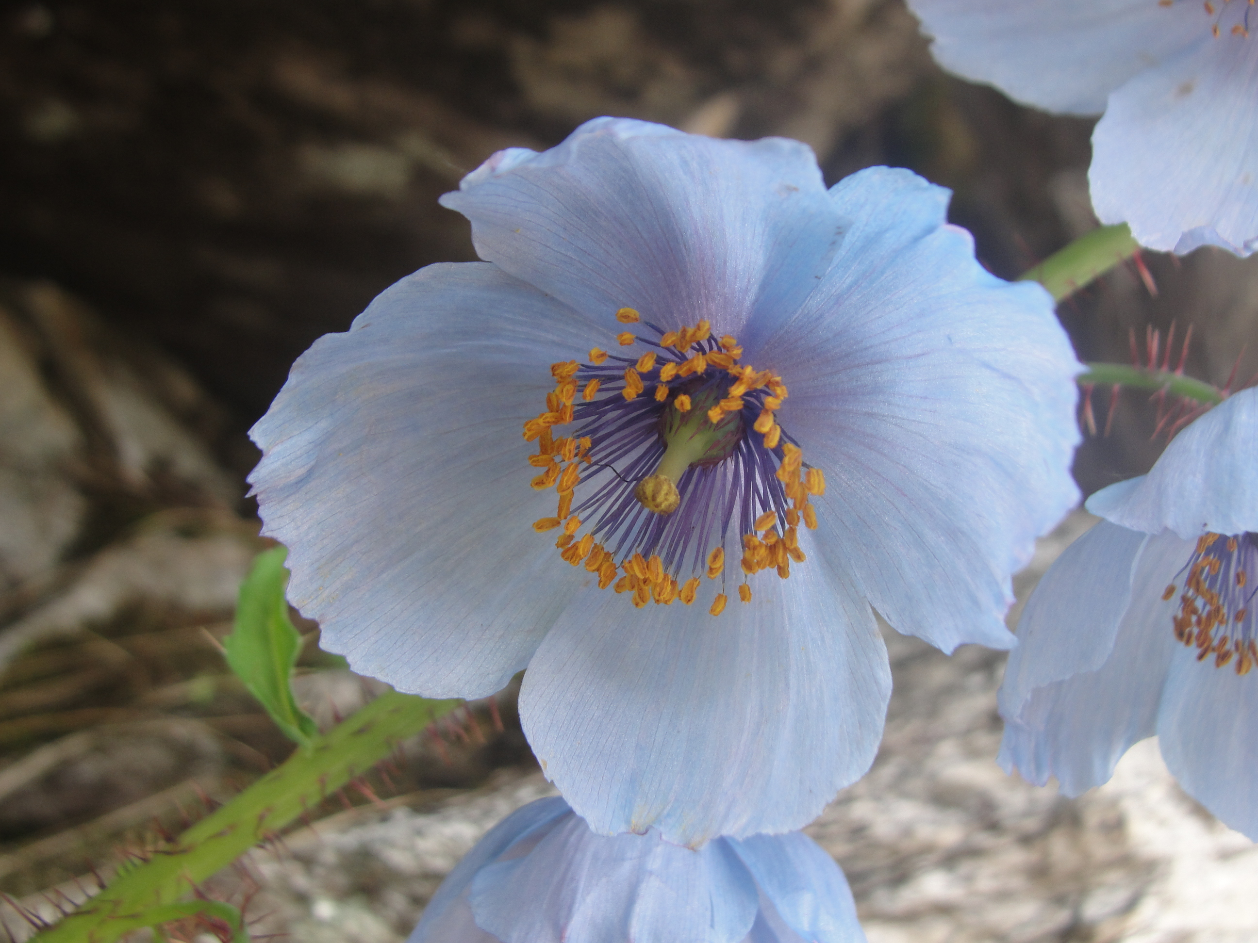 Found in the Himalays, the flower is the national flower of Bhutan.